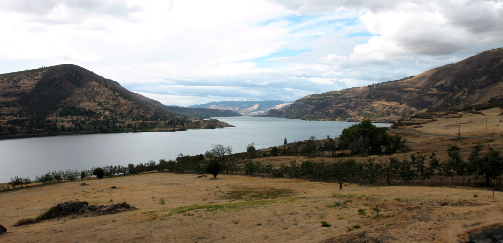 The Columbia River Gorge seen from the Washington side near Dallesport, Washington, looking west. Taken by User:Cacophony on September 10th, 2005.